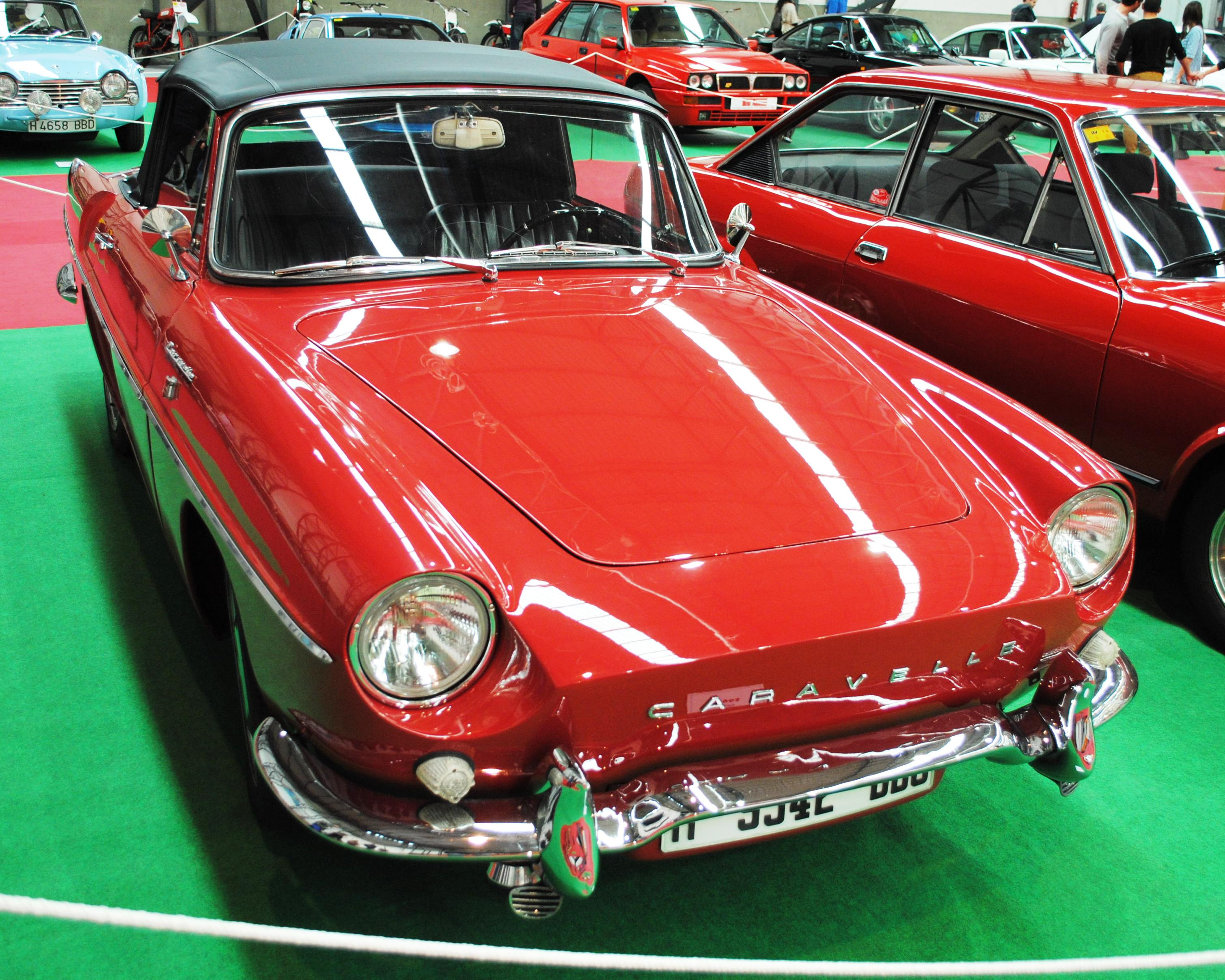 Renault Caravelle, 1963, IFEVI, 2014.JPG